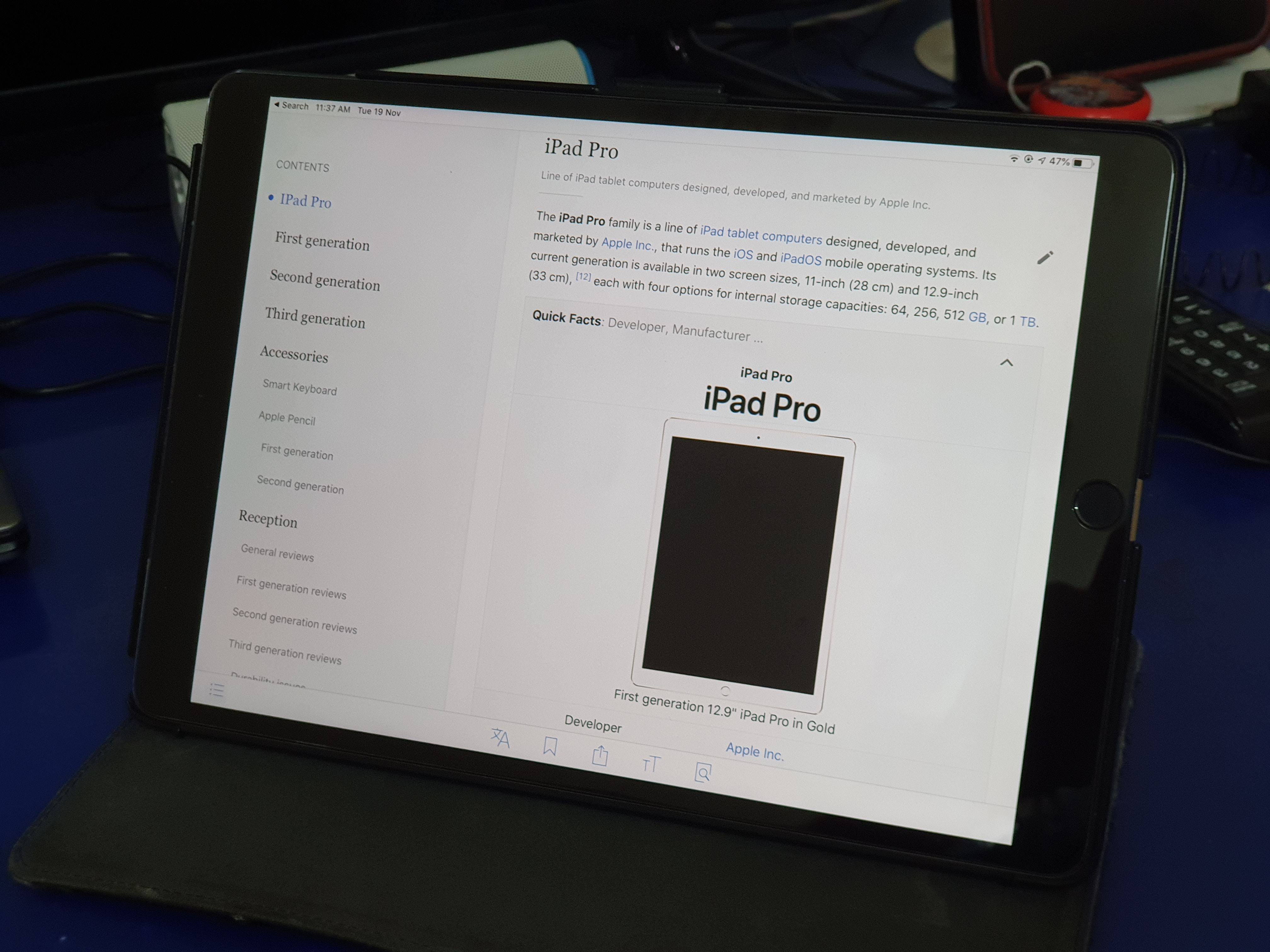 It shows a silver iPad pro with black screen bezzles. The screen has Wikipedia turned on.